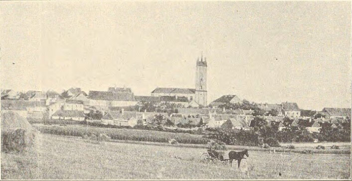 Picture of Podivín from Hasičská kronika.